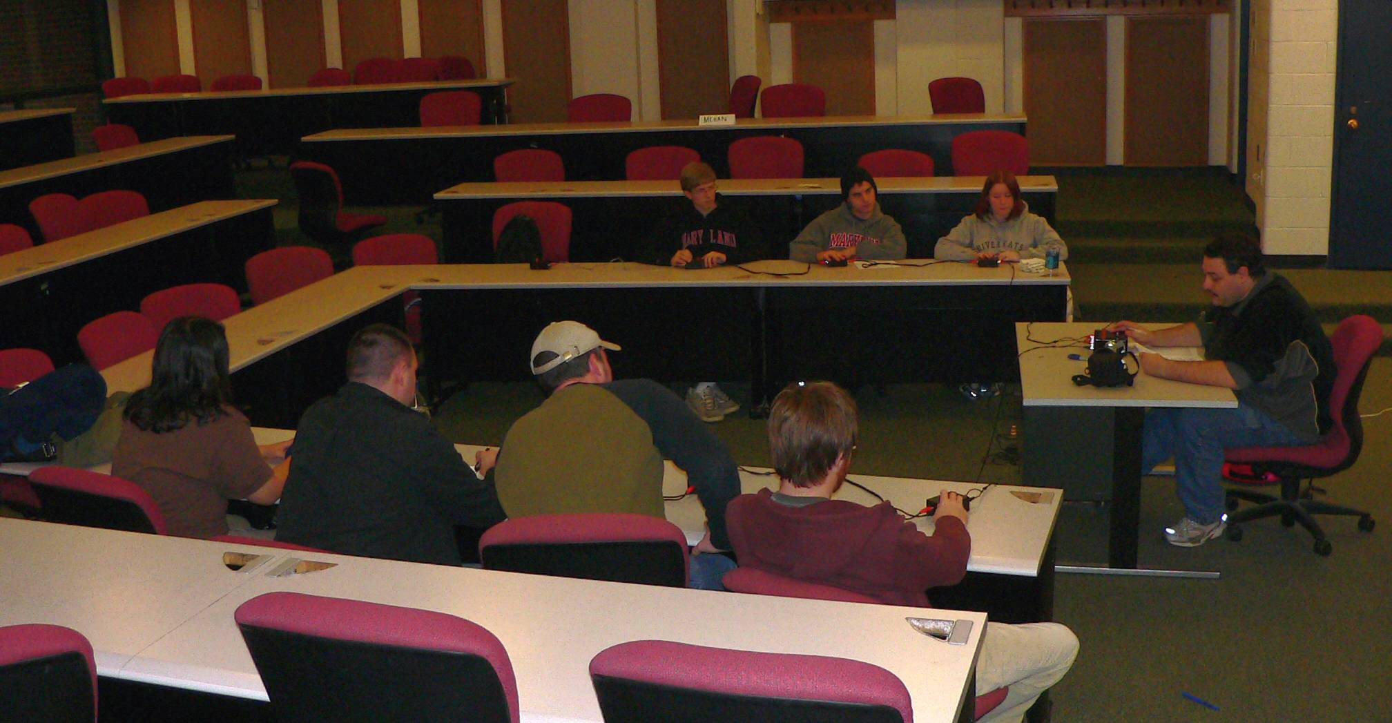 Myself (Mark Pellegrini) moderating a round of quiz bowl at Trash Regionals 2007.